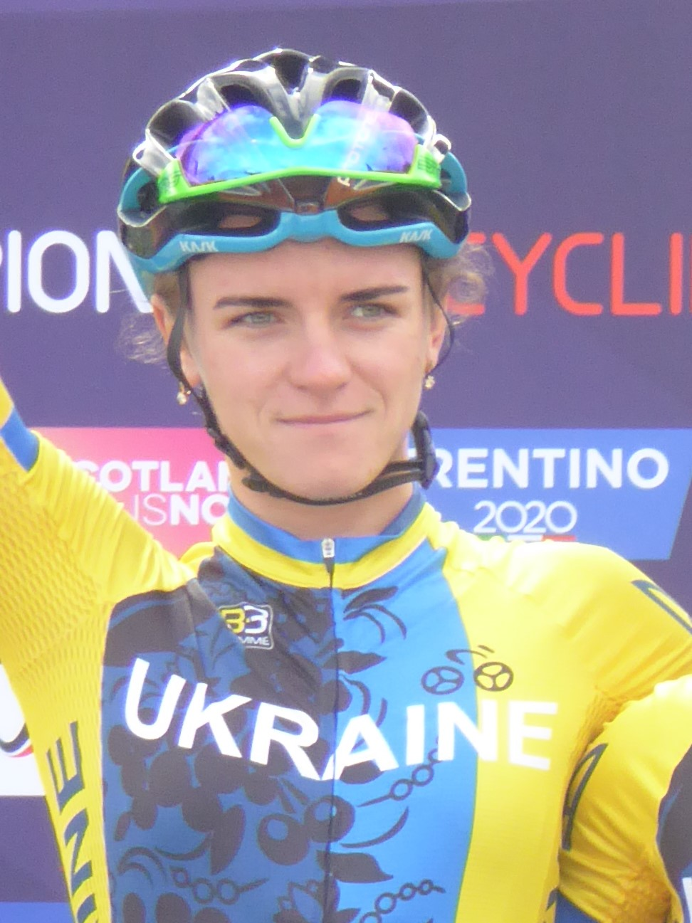 Olga Shekel (Ukraine), prior to the women's road race at the 2018 UEC European Road Cycling Championships in Glasgow.